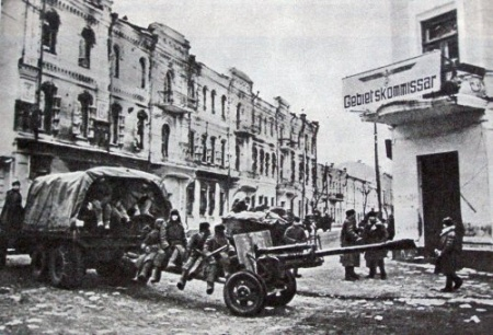 Zhitomir–Berdichev Offensive